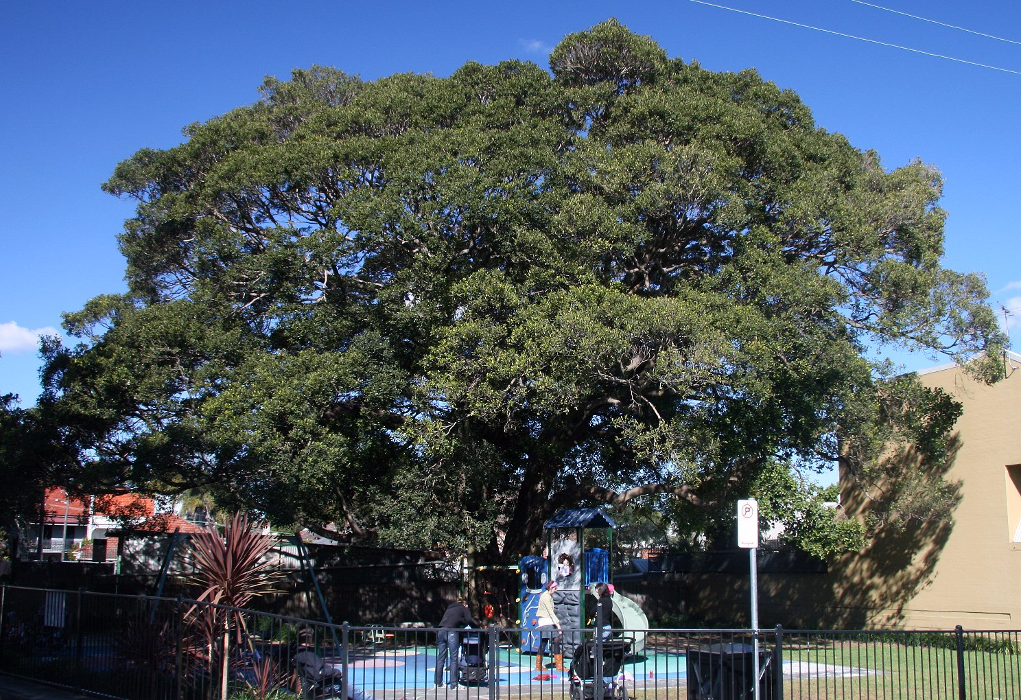 Ficus obliqua - Kirsova Playground, Glebe, Sydney